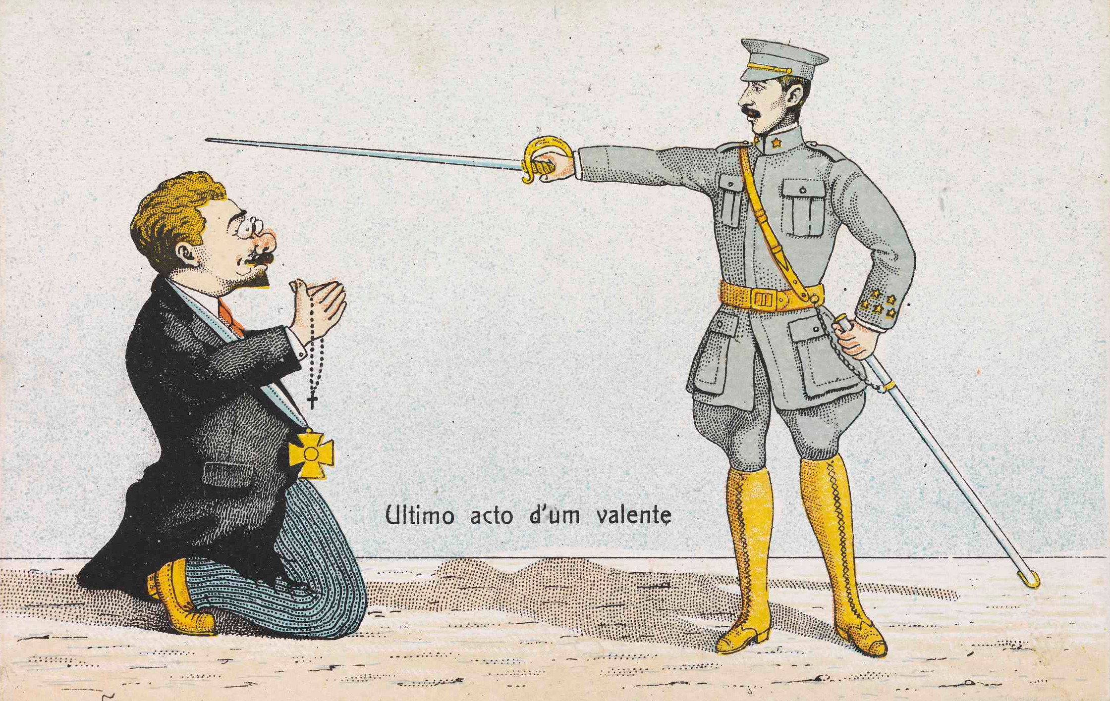 Postcard with caricature of Sidónio Pais's rise to power - as a dictator - ousting through a military coup Afonso Costa's Democratic Party government. Costa is the figure on its knees to the left, with a fanciful decoration (an alusion the Order of the Immaculate Conception of Vila Viçosa). The inscription reads: «The final act of a brave man.»